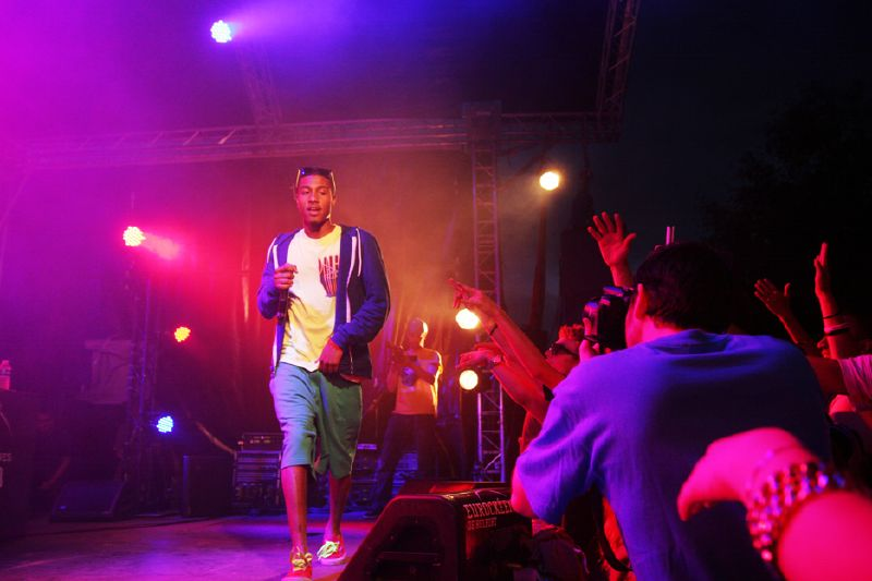 The Cool Kids at the Eurockéennes 2008